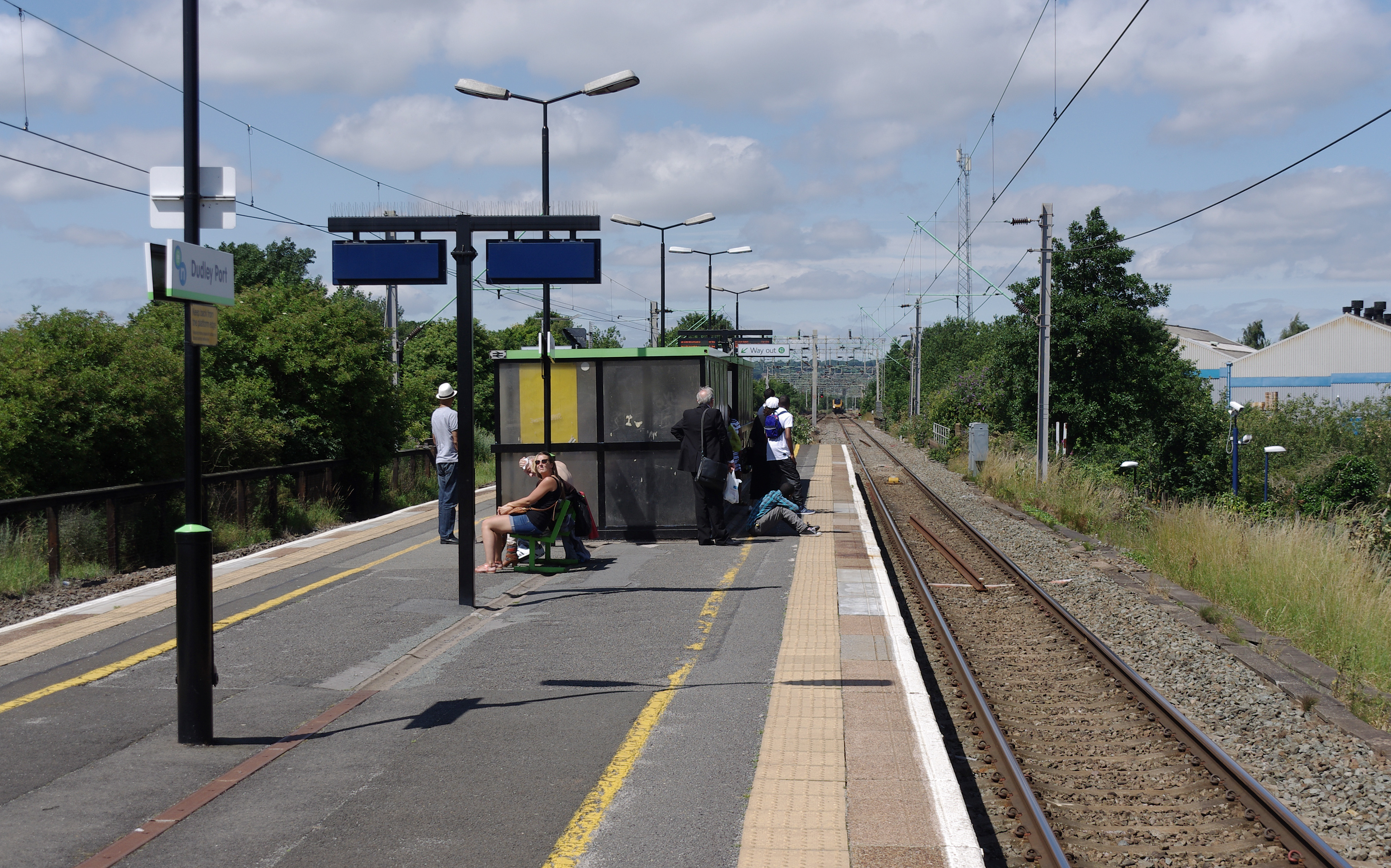 Looking west along the platform at Dudley Port railway station.